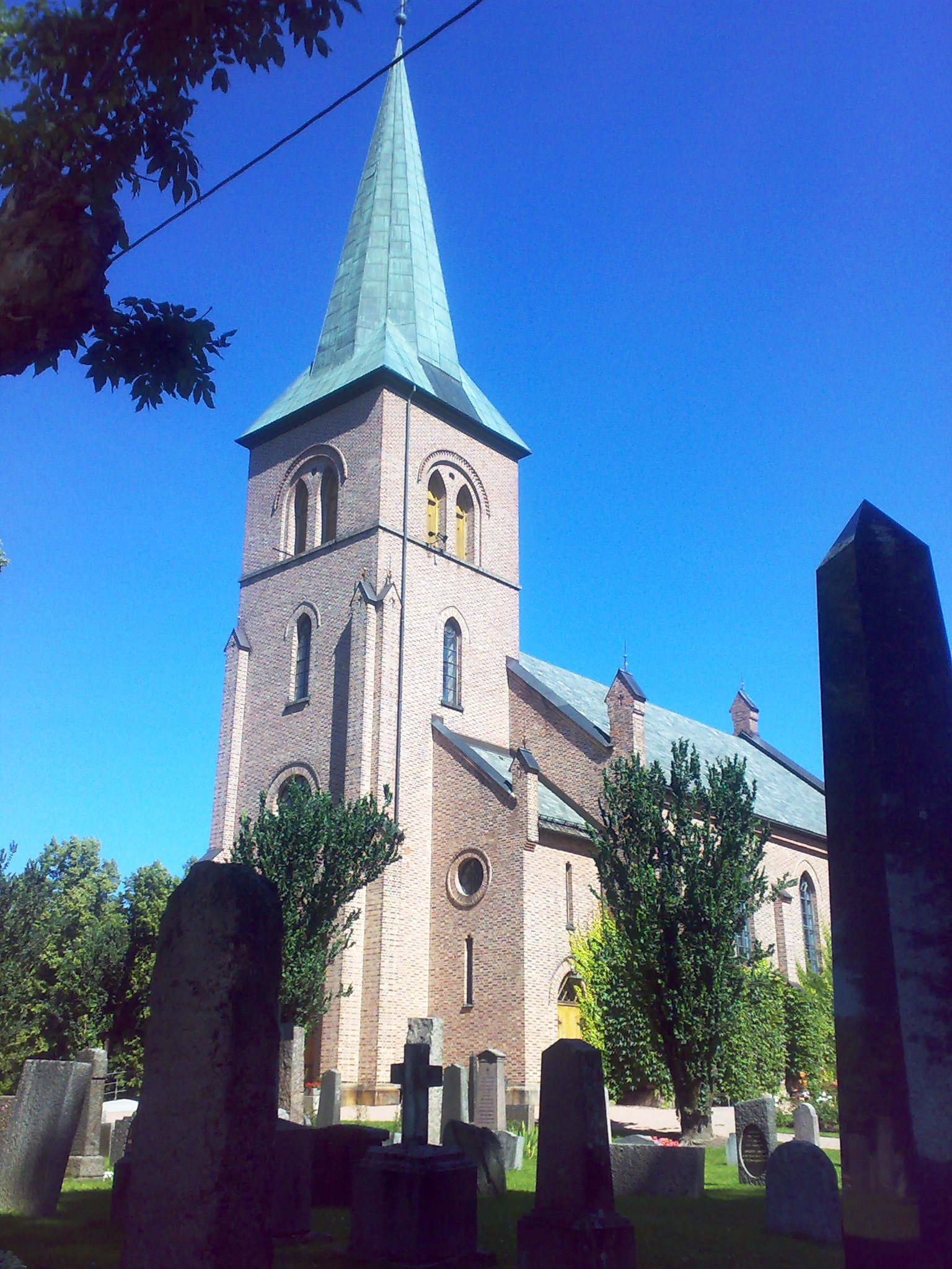 Asker church, Asker city (Akershus), Norway